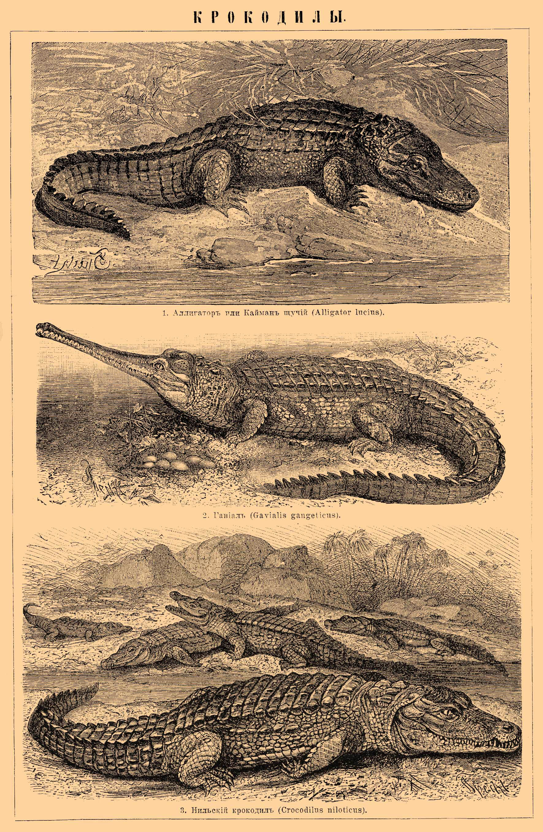 Illustration from Brockhaus and Efron Encyclopedic Dictionary (1890—1907)